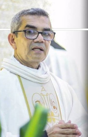 Padre Brito, primeiro pároco de Laje Grande